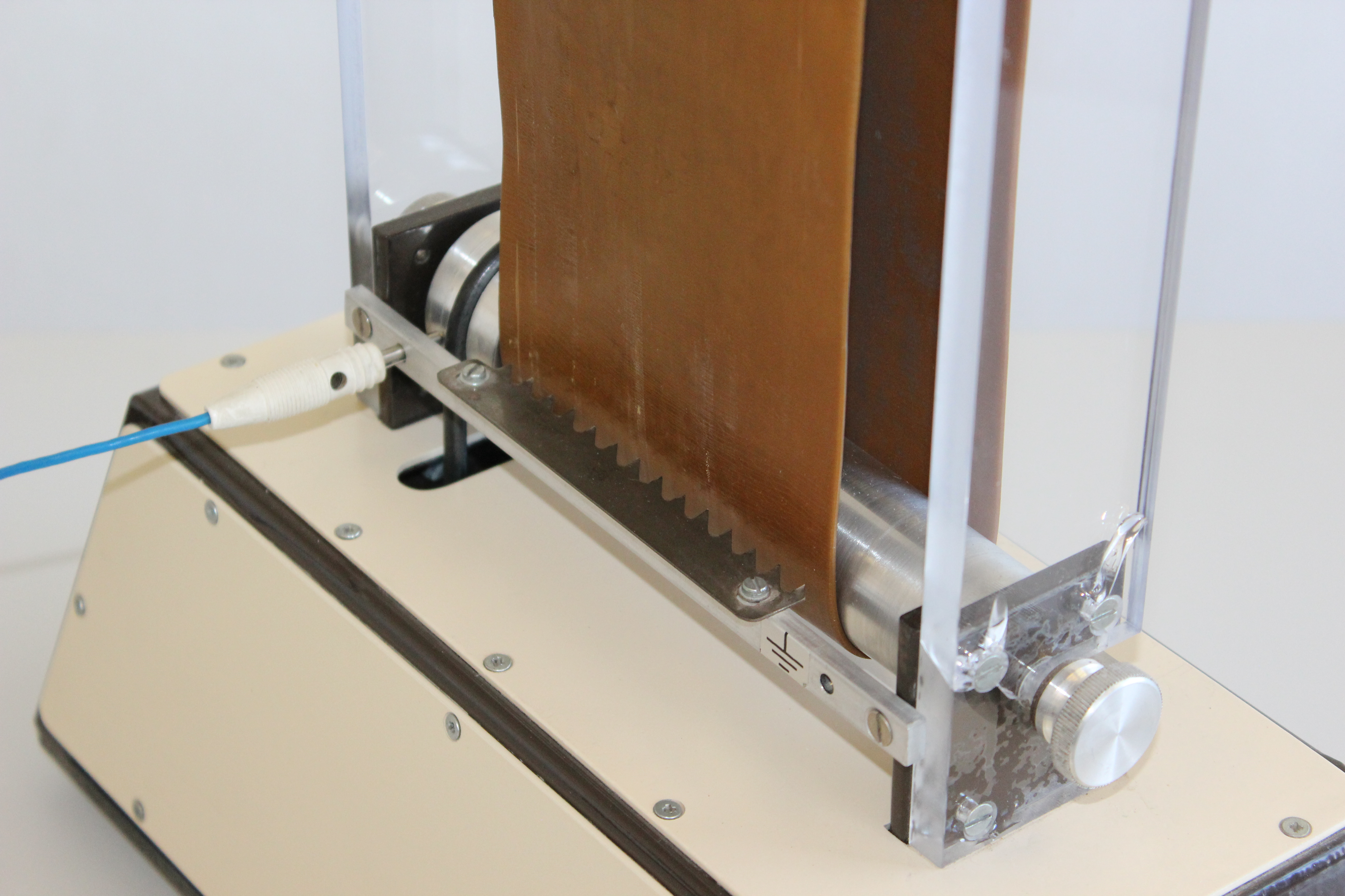 Van de Graaff generator for schools (detail)